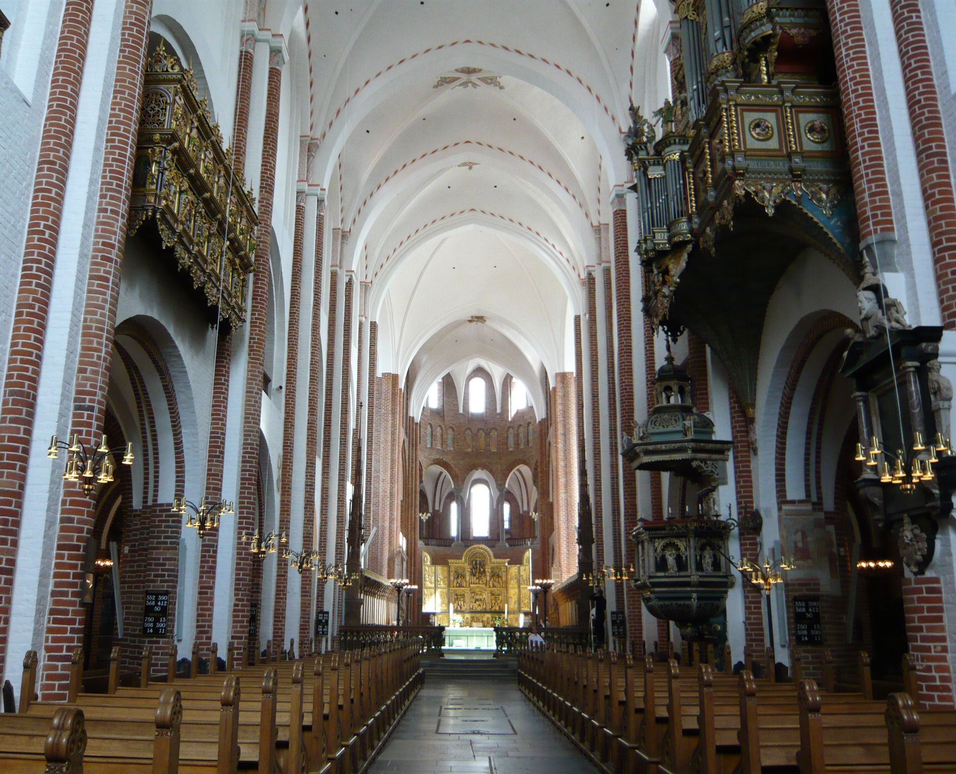 The nave of the Cathedral.